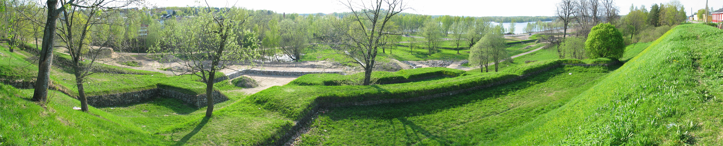 Western (not eastern!) walls of Lappeenranta fortification, restaured in their 18th century appearance. Lappeenranta, Finland